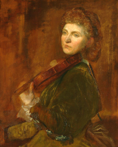 The portrait of violinist Wilma Neruda a.k.a Lady Hallé (1839—1911)